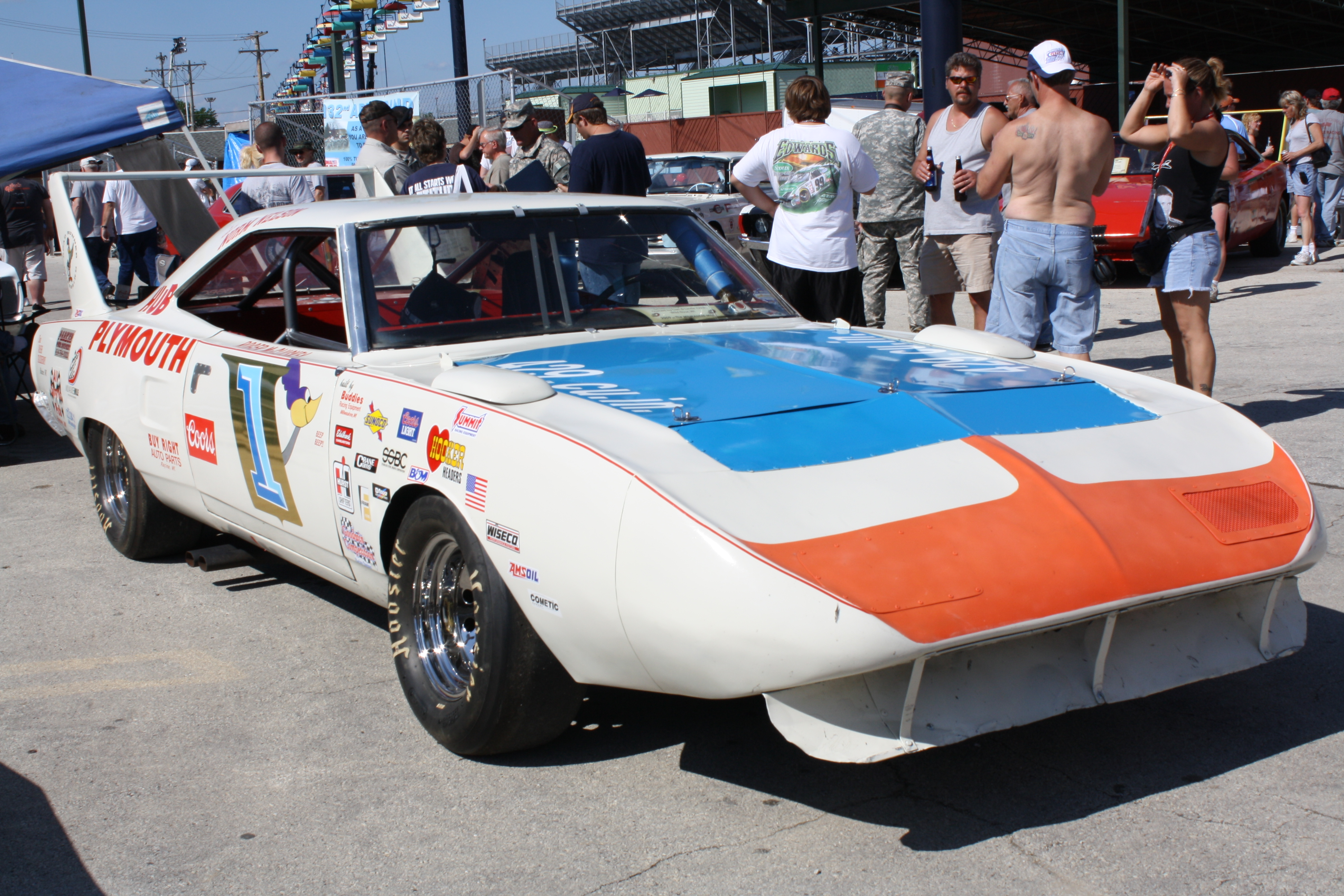 A replica or possibly original Plymouth Superbird USAC Stock Car driven by Roger McCluskey for owner Norm Nelson. Taken at the Milwaukee Mile 2009 Nationwide race.